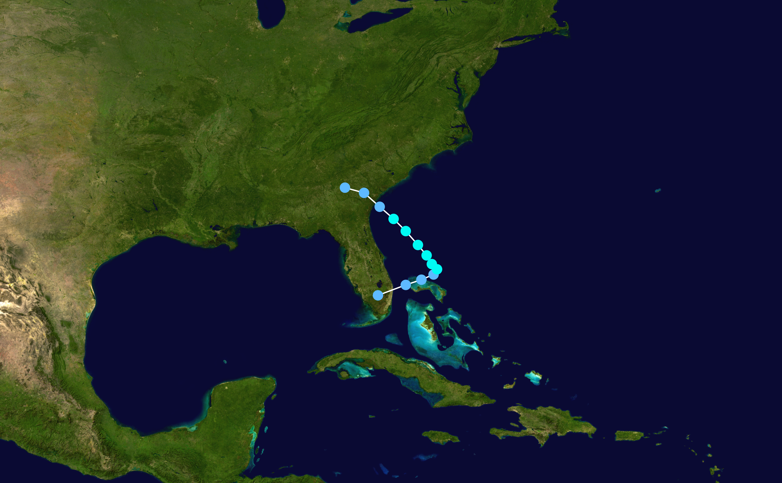 Track map of Tropical Storm Five of the 1953 Atlantic hurricane season. The points show the location of the storm at 6-hour intervals. The colour represents the storm's maximum sustained wind speeds as classified in the Saffir–Simpson hurricane wind scale (see below), and the shape of the data points represent the nature of the storm, according to the legend below. Saffir–Simpson hurricane wind scale Tropical depression≤38 mph≤62 km/h Category 3111–129 mph178–208 km/h Tropical storm39–73 mph63–118 km/h Category 4130–156 mph209–251 km/h Category 174–95 mph119–153 km/h Category 5≥157 mph≥252 km/h Category 296–110 mph154–177 km/h Unknown Storm typeTropical cycloneSubtropical cycloneExtratropical cyclone / Remnant low / Tropical disturbance